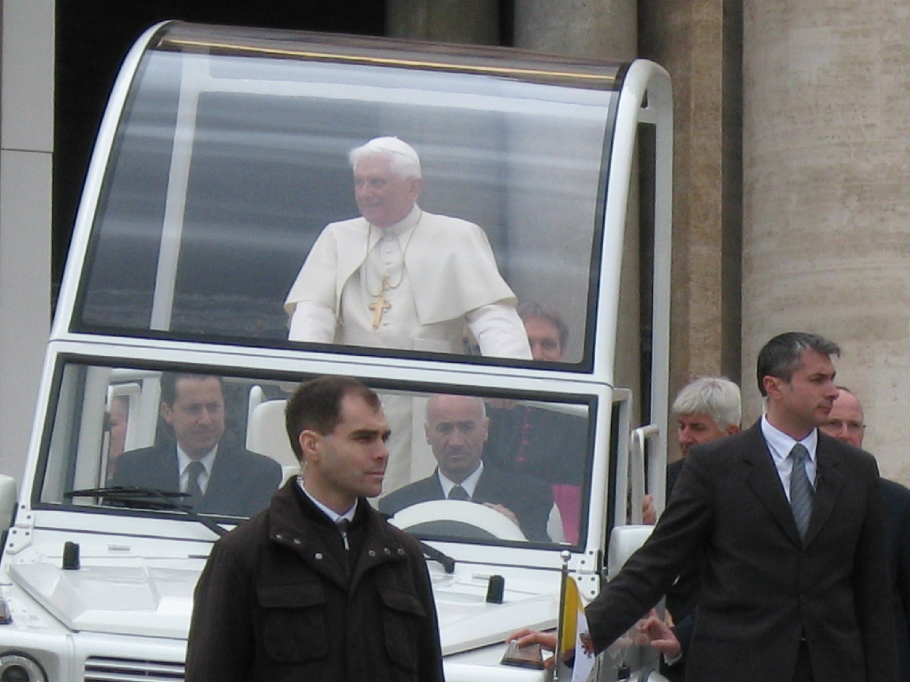 Pope Benedictus XVI waveing during the general audience in S. Peter, Vatican City on the 26th March, 2008. On the "popemobile", sitting at his right, Paolo Gabriele, the pope's personal butler (Aiutante di camera di Sua Santità, First Assistant of the Chamber of His Holiness)